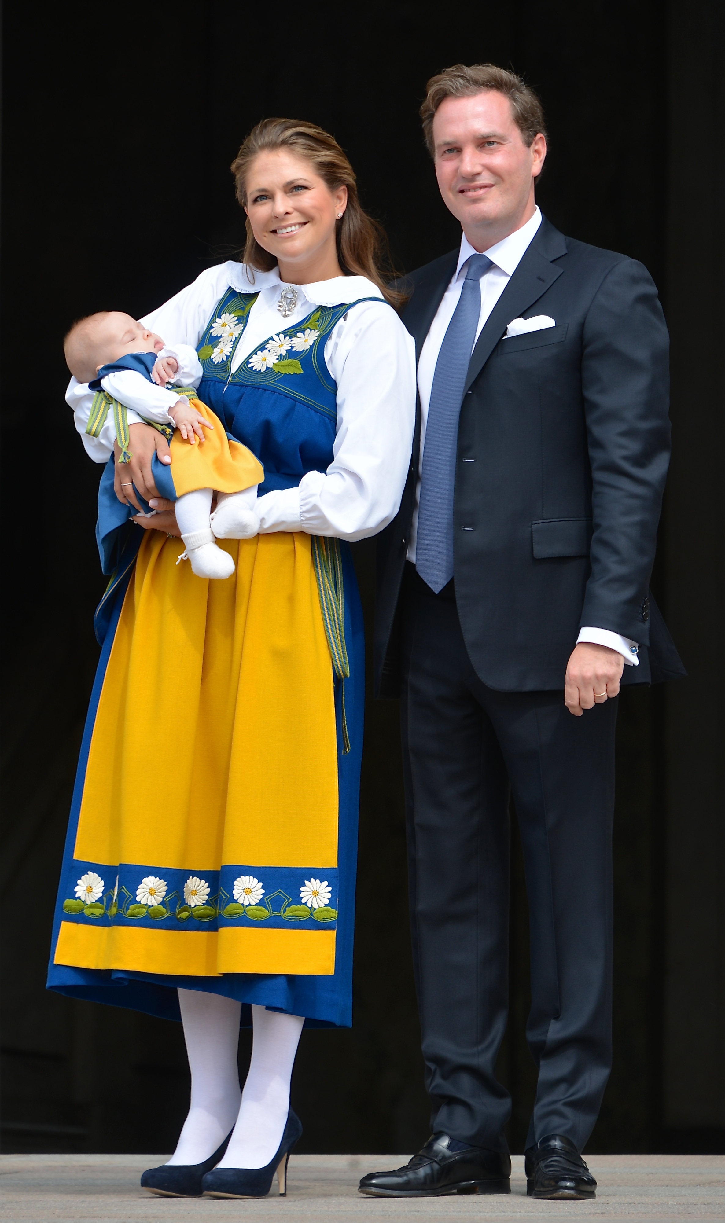 Princess Madeleine of Sweden and Christopher O'Neill on National Day June 6, 2014 in southern arch to the Royal Palace.